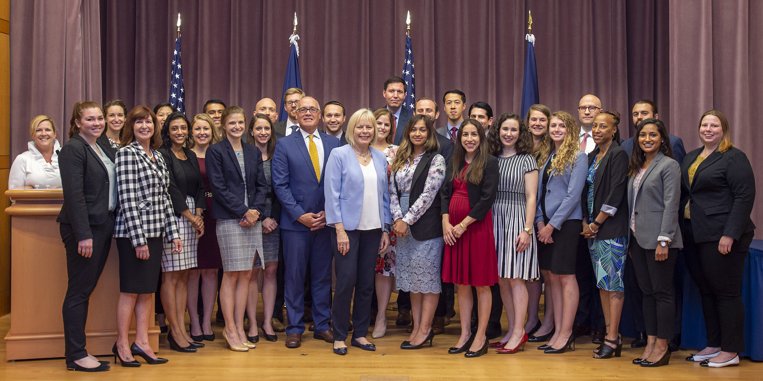 The 2019 Presidential Management Fellows (PMFs) pose for a group photo with Director General of the Foreign Service & Director of Human Resources, Carol Perez following their graduation ceremony at the U.S. Department of State in Washington, D.C., on June 19, 2019. [State Department photo by Mark Stewart/ Public Domain]